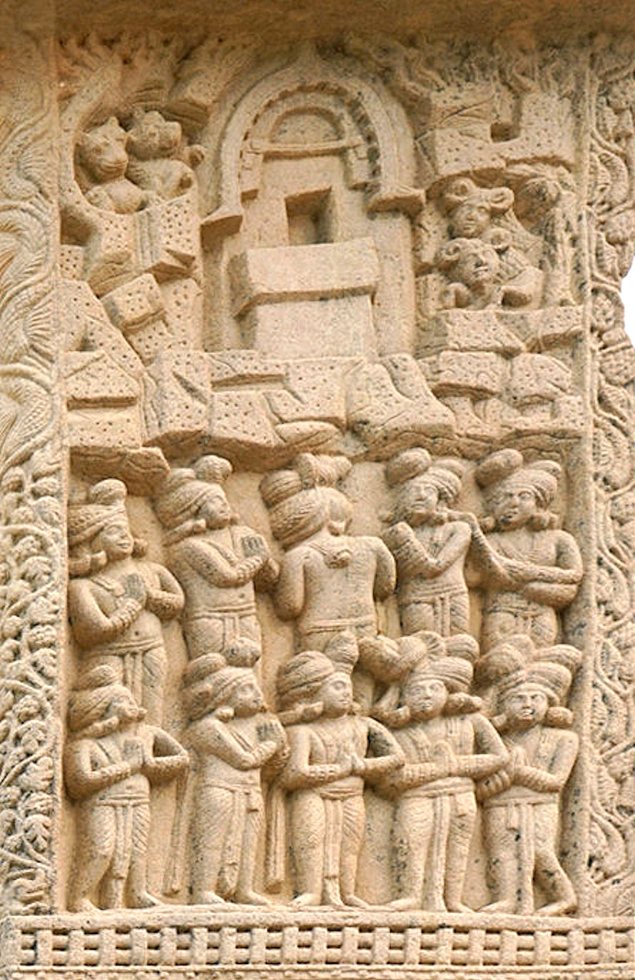 The Visit of Indra to the Buddha in the Indrasaila cave near Rajagriha Sanchi Stupa 1Northern Gateway